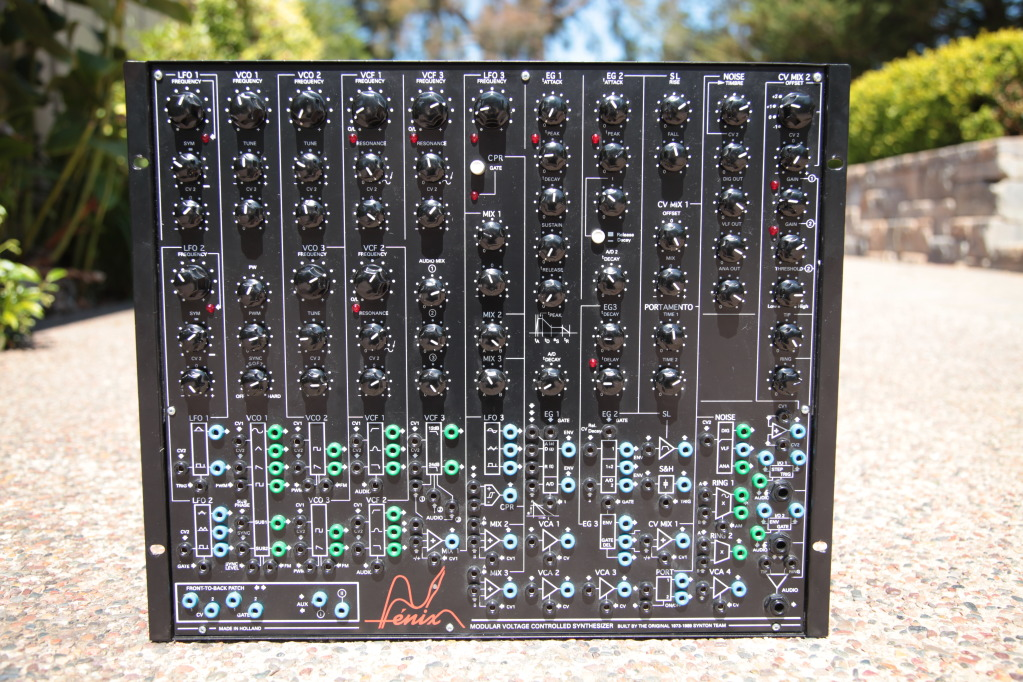 photograph of the mk I Fenix synthesizer, made in Holland